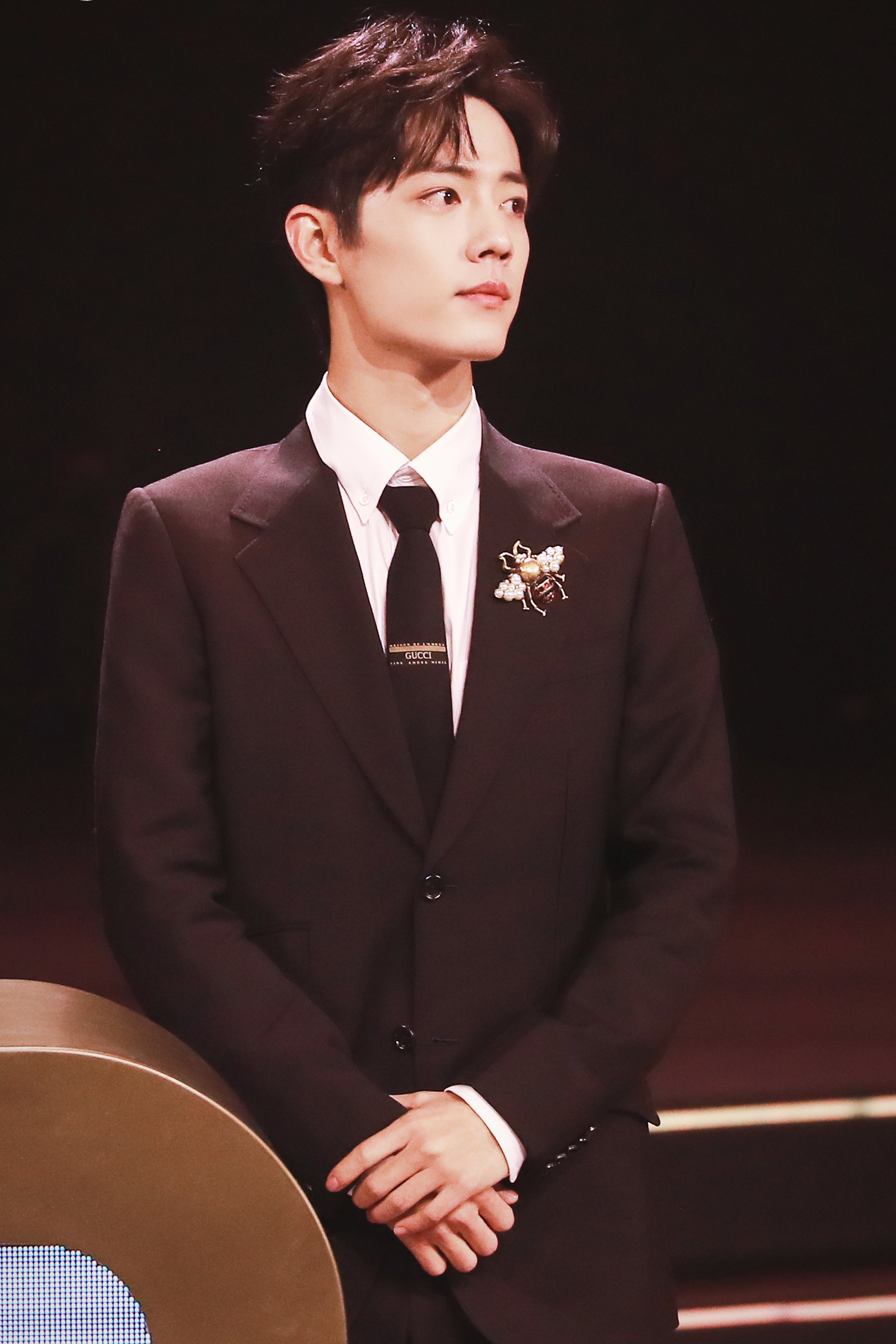 Xiao Zhan at the Weibo Night Gala on January 11, 2020.